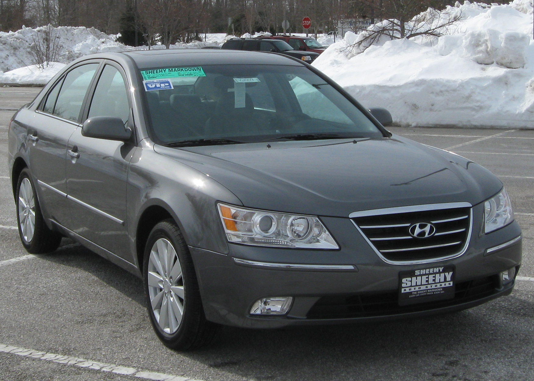 2010 Hyundai Sonata Limited photographed in Waldorf, Maryland, USA.